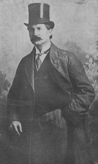 Rıza Tevfik (Rıza Tevfik Bölükbaşı after the Surname Law of 1934; 1869 – 31 December 1949) was a Turkish philosopher, poet, politician of liberal signature and a community leader (for some members among the Bektashi community) of the late-19th-century and early-20th-century. Rıza Tevfik in 1912. (Cropped image)